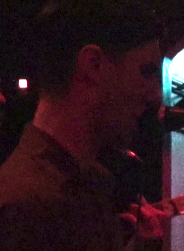 Charlie Looker